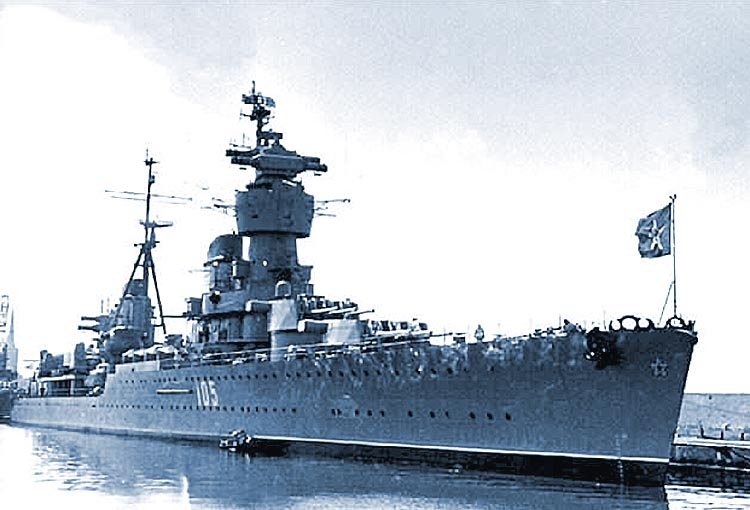 An elevated port bow view of the Soviet Navy command cruiser projekt 68-K (Chapayev class command cruiser) Komsomolets.